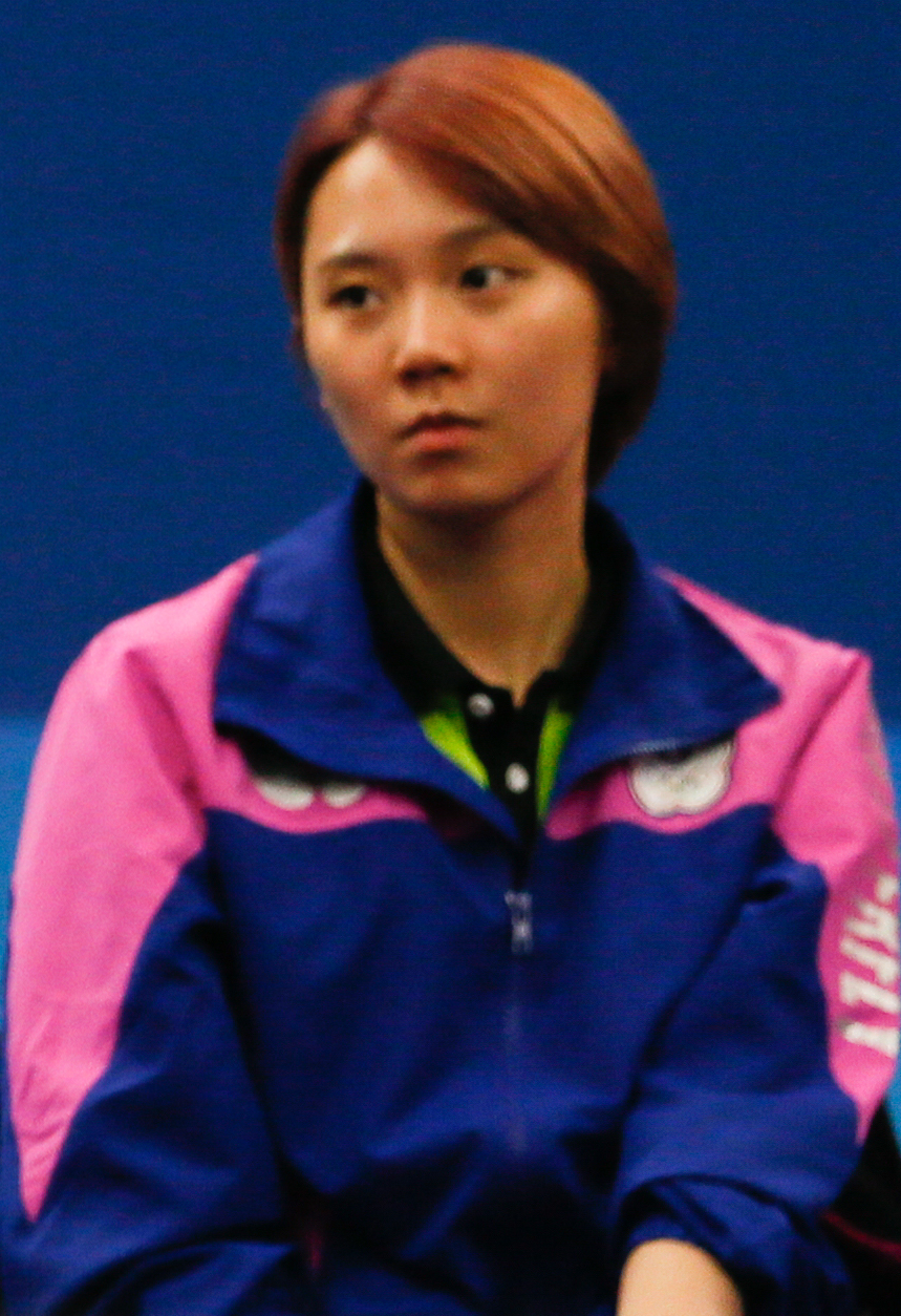 Cheng Hsien-tzu